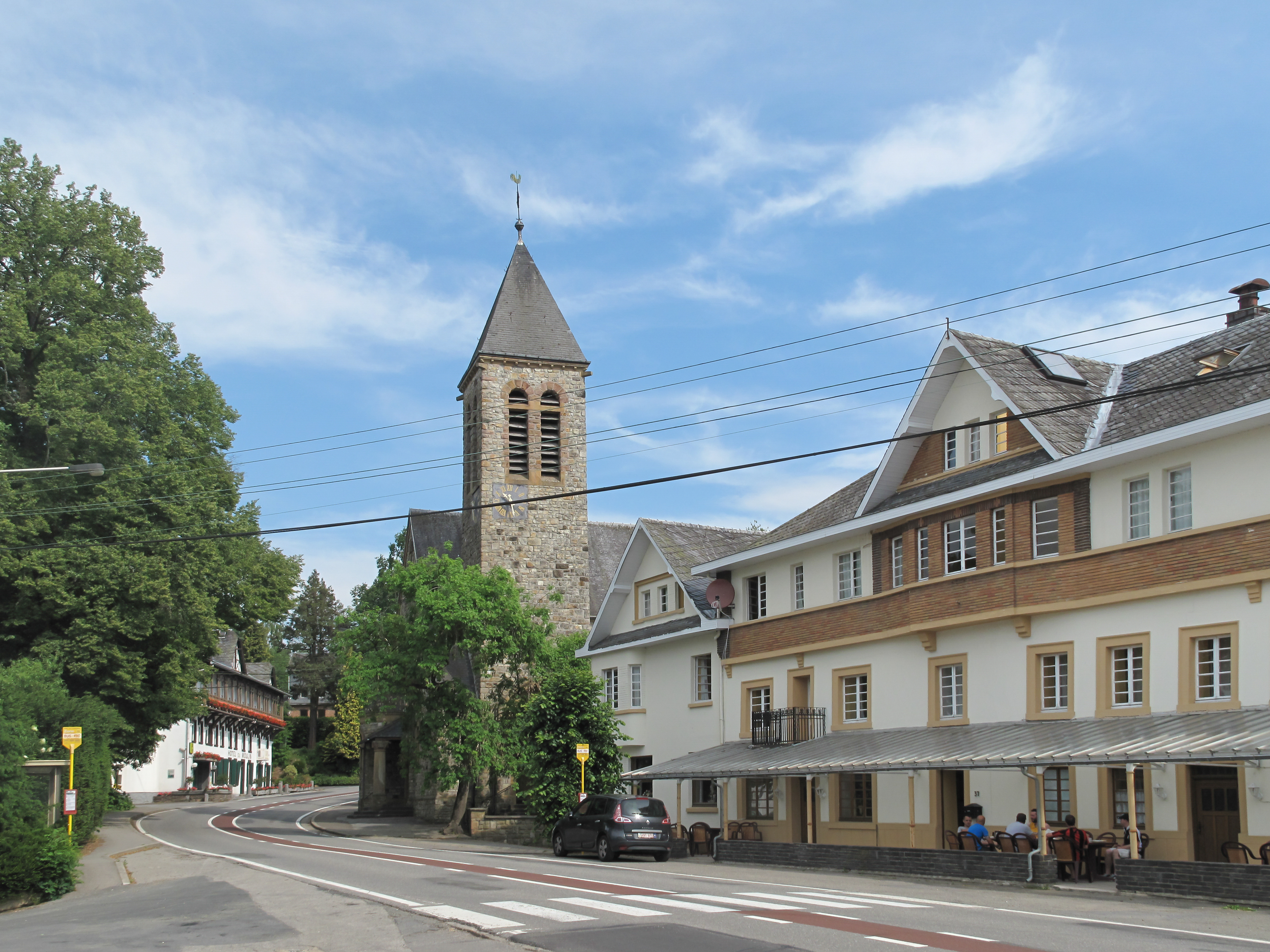 Ligneuville, church in the street